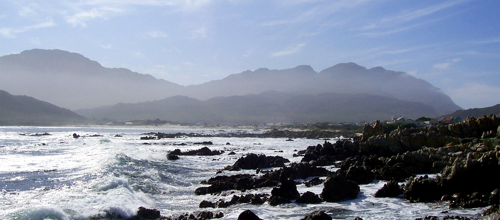 A view of Pringle Bay in Western Cape, South Africa. Taken by myself, Andres de Wet, October 2005